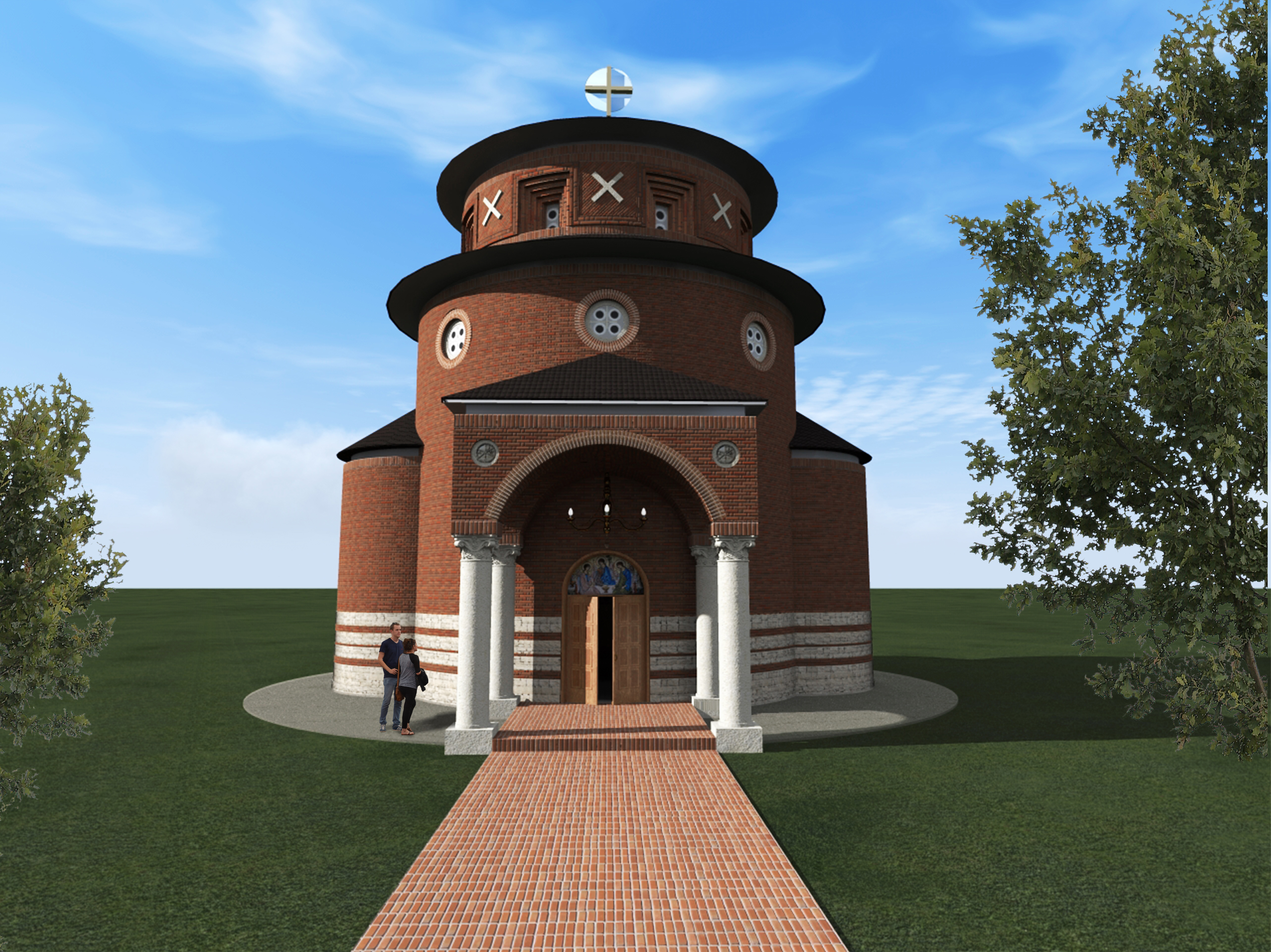 Crkva-rotonda Sv. Nikole u Novoj Gradišci, Hrvatska 2018.